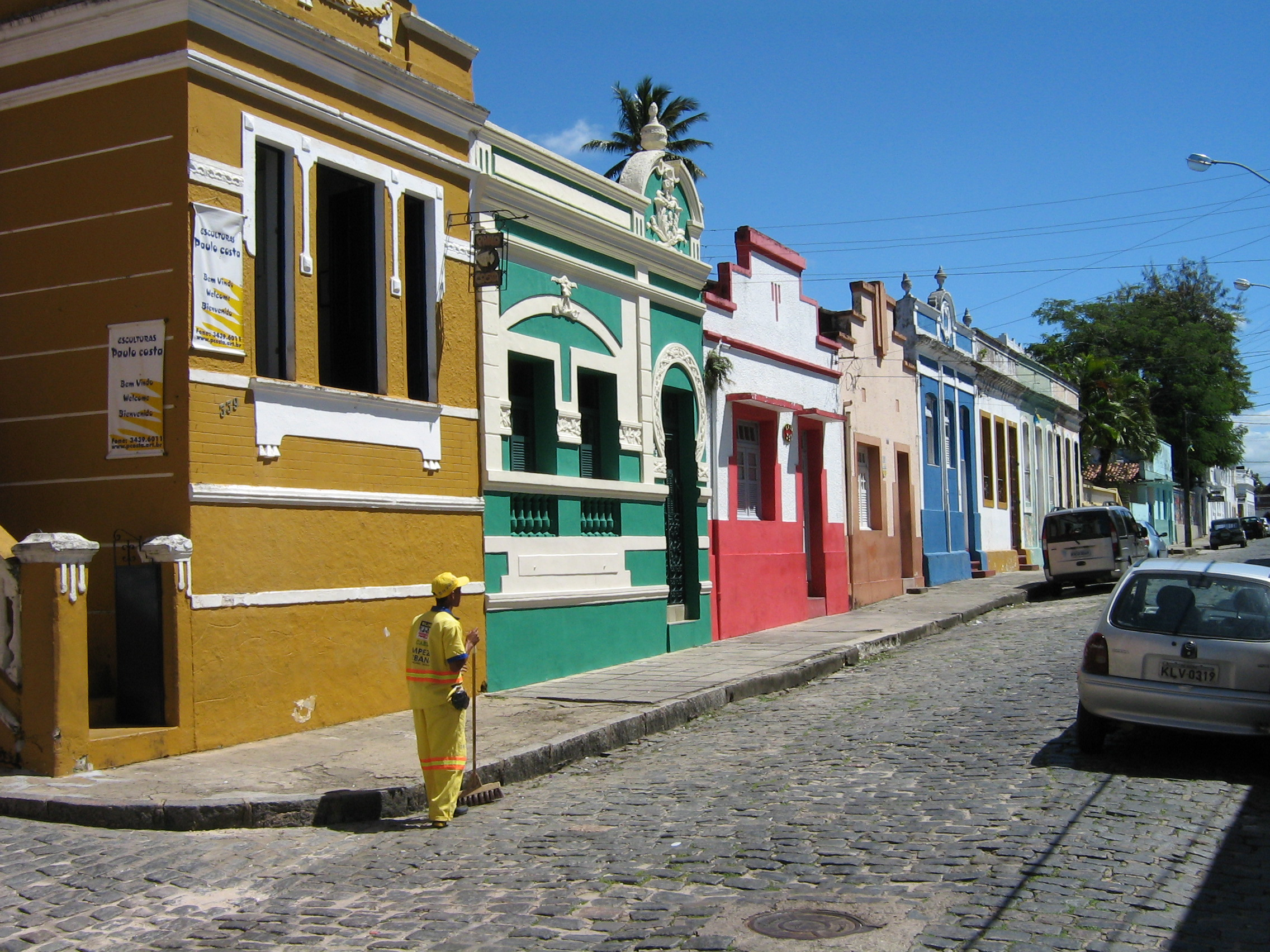 Photo taken by my of a street in the historical center of Olinda, Brazil. July 2006.